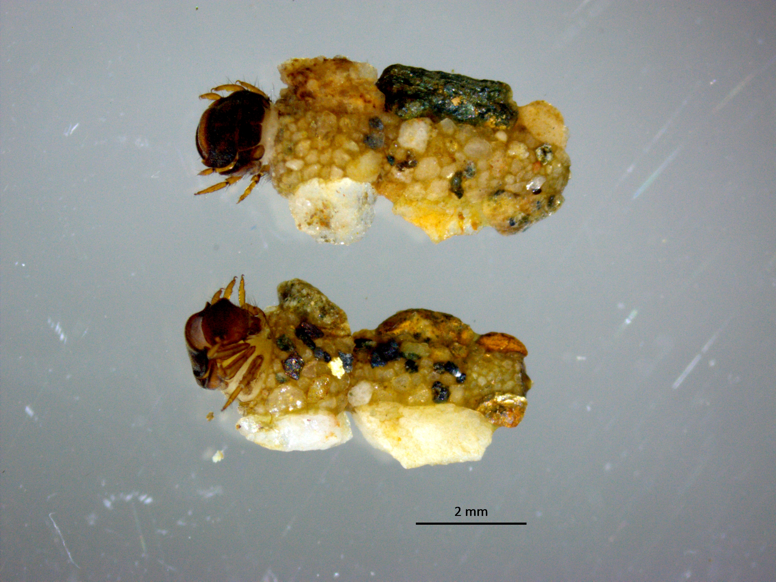 Silo nigricornis larva from Toplodolska river (SE Serbia). Српски (ћирилица): Ларва Silo nigricornis из Топлодолске реке (општина Сурдулица, ЈИ Србија).